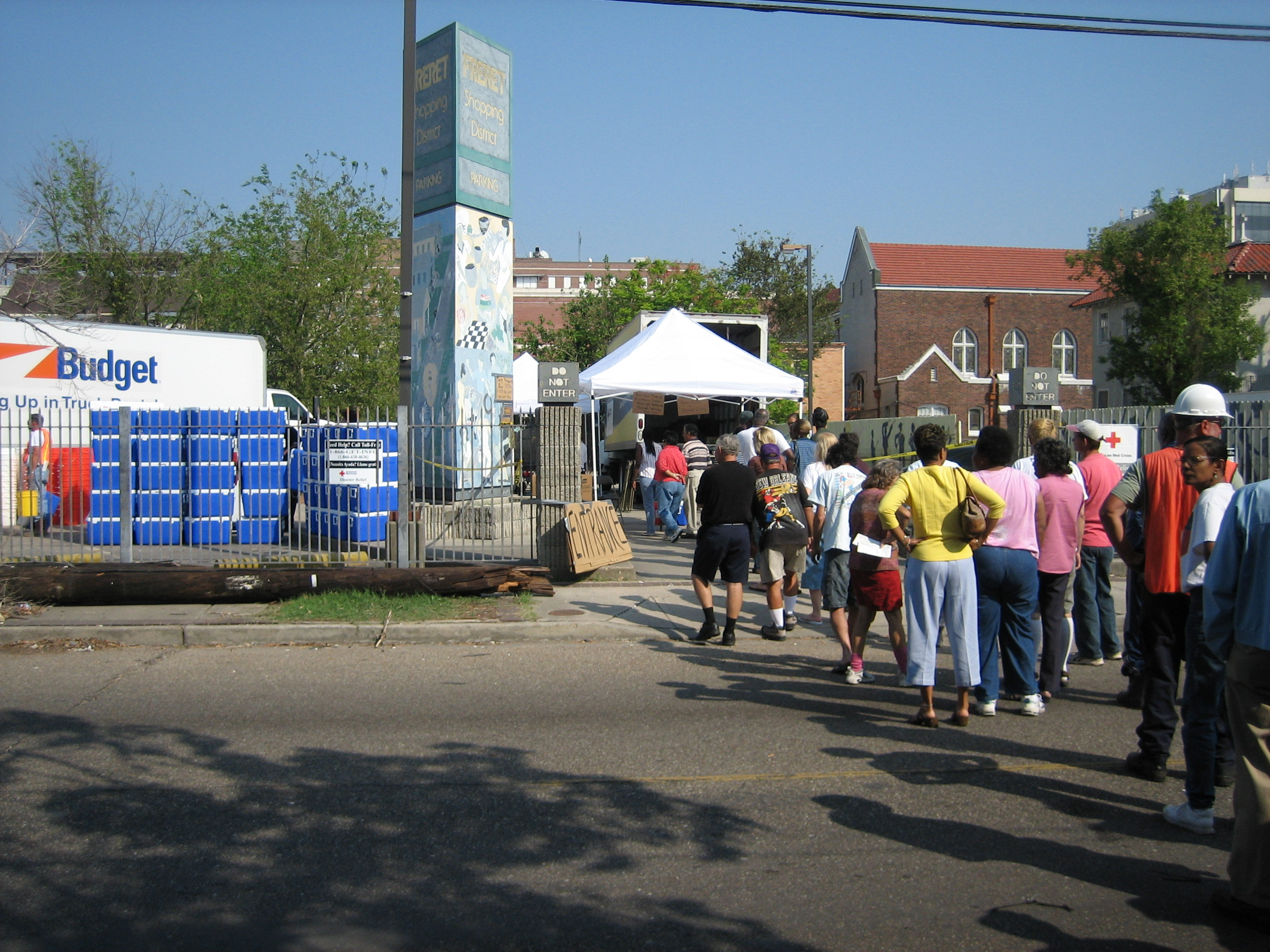 Red Cross relief center, Freret Street near Napoleon Avenue, Uptown New Orleans, after Hurricane Katrina. This was one of several such stations set up by the Red Cross around the city starting in late September 2005; some continued through December. Locals line up for daily give away of bottled water, food (mostly packaged ready to eat or self heating meals) and cleaning supplies (sponges, rubber gloves, soap, anti-mold cleaning liquid; some days other items such as brooms, mops, buckets were availible). This day they were also giving away plastic ice chests and bags of ice, an enthusiastically received treat in a city with few functioning refrigerators. At the desk under the tent locals could also sign up for medical care. This area of Uptown flooded in about chest deep water for over 2 weeks.